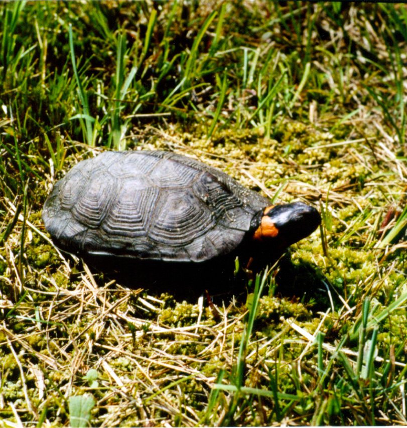 Bog Turtle (Clemmys muhlenbergi)